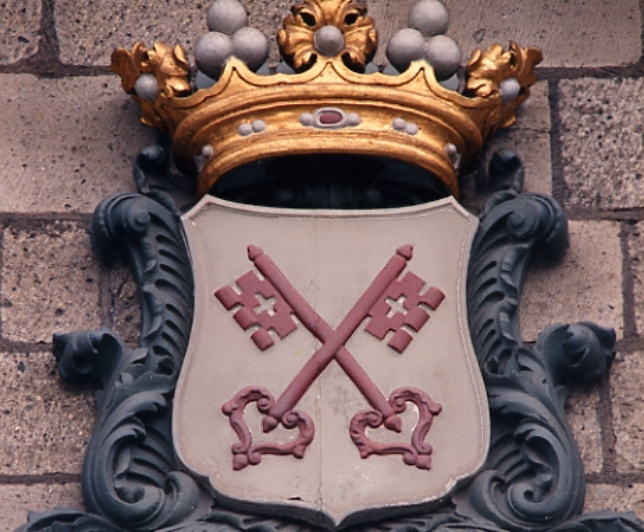 code of Arms of the City of Leyden: the keys from St Peter